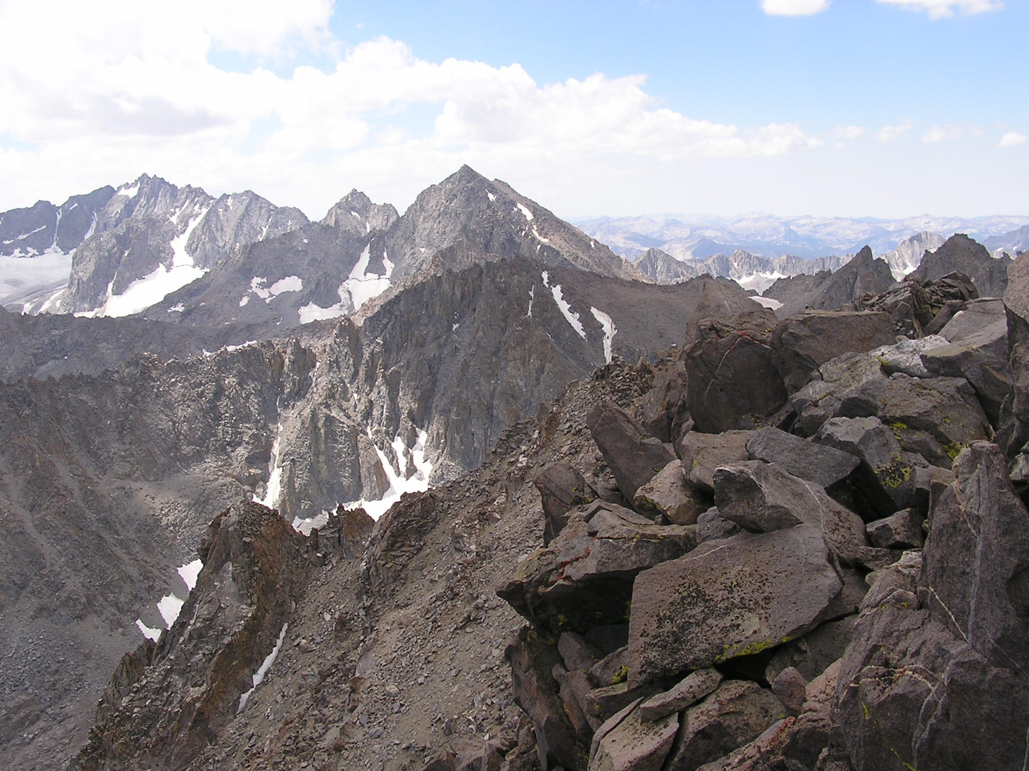 North face of Mount Agassiz (center), Palisades, Sierra Nevada. Taken from Cloudripper.